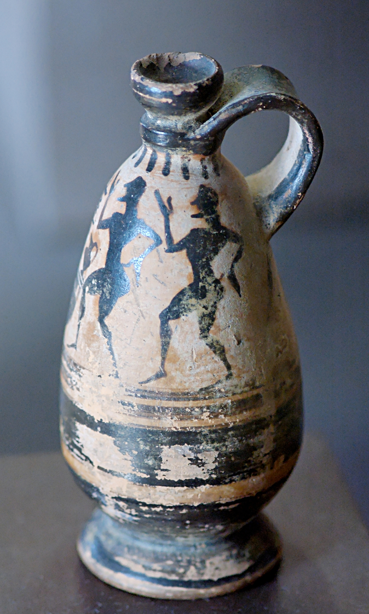 Komos scene. Black-figure Dejanira lekythos, ca. 550 BC. From Boeotia.